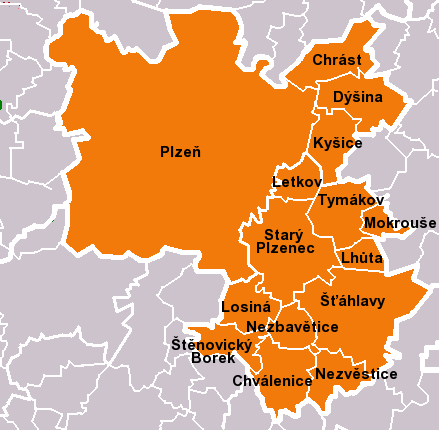 Municipalities of Plzeň-City District as of January 1, 2010 (15 municipalities in total). White lines of variable thickness show boundaries of municipalities, administrative areas and districts.